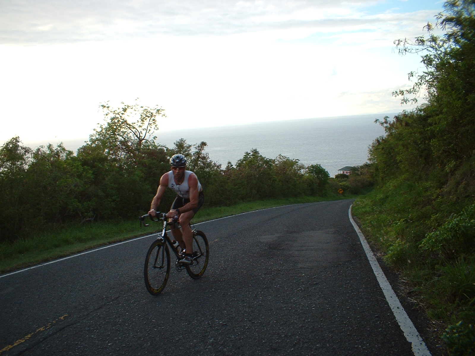 Saint Croix Ironman 70.3. The famous hill "The beast".